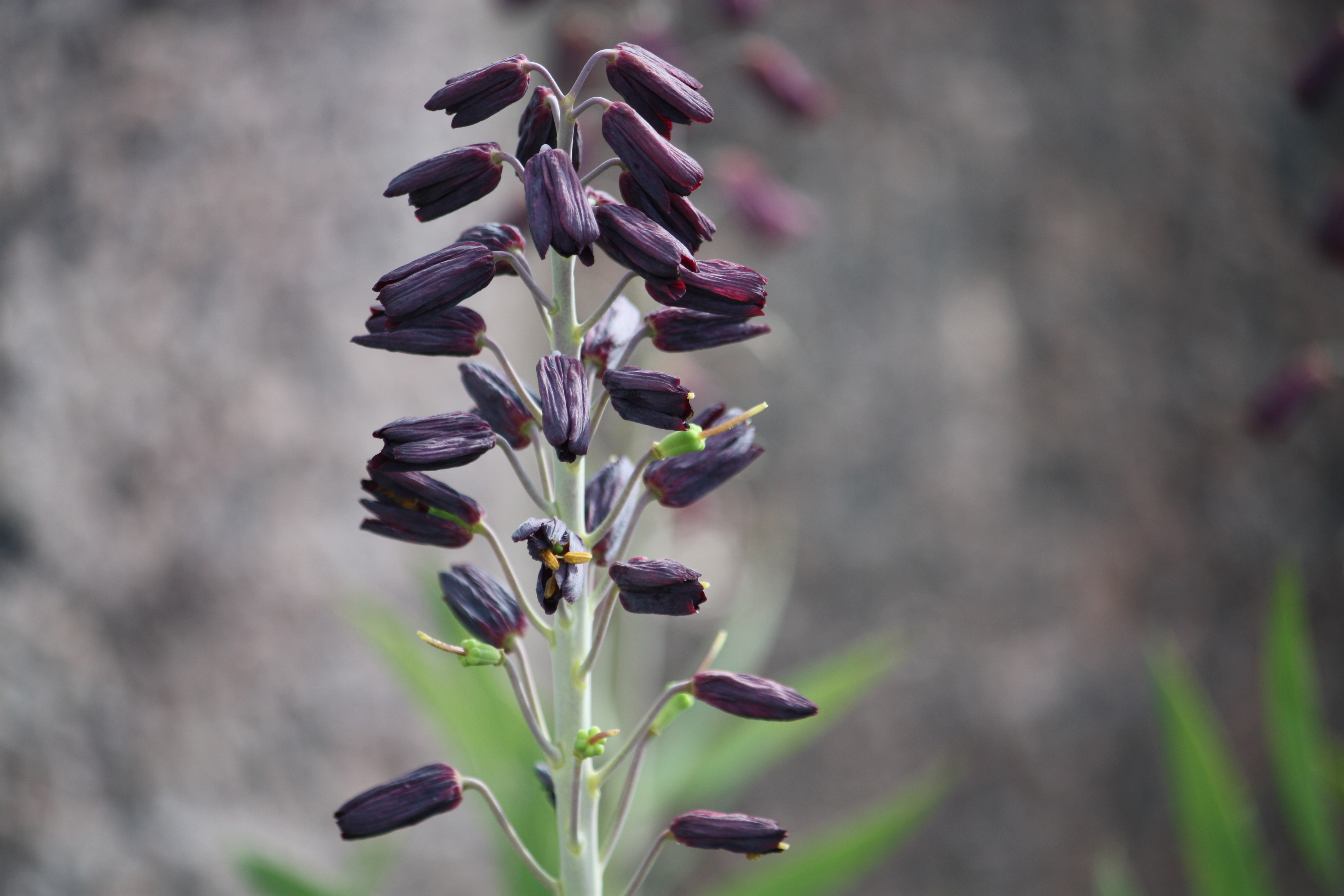 Fritillaria persica in The University of Helsinki Botanic Garden in Kaisaniemi